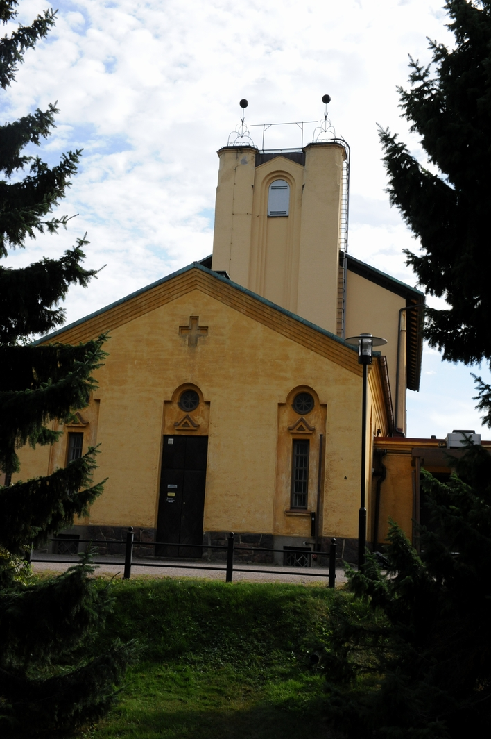 Hietaniemi Crematory photographed from backside 1.8.2010.